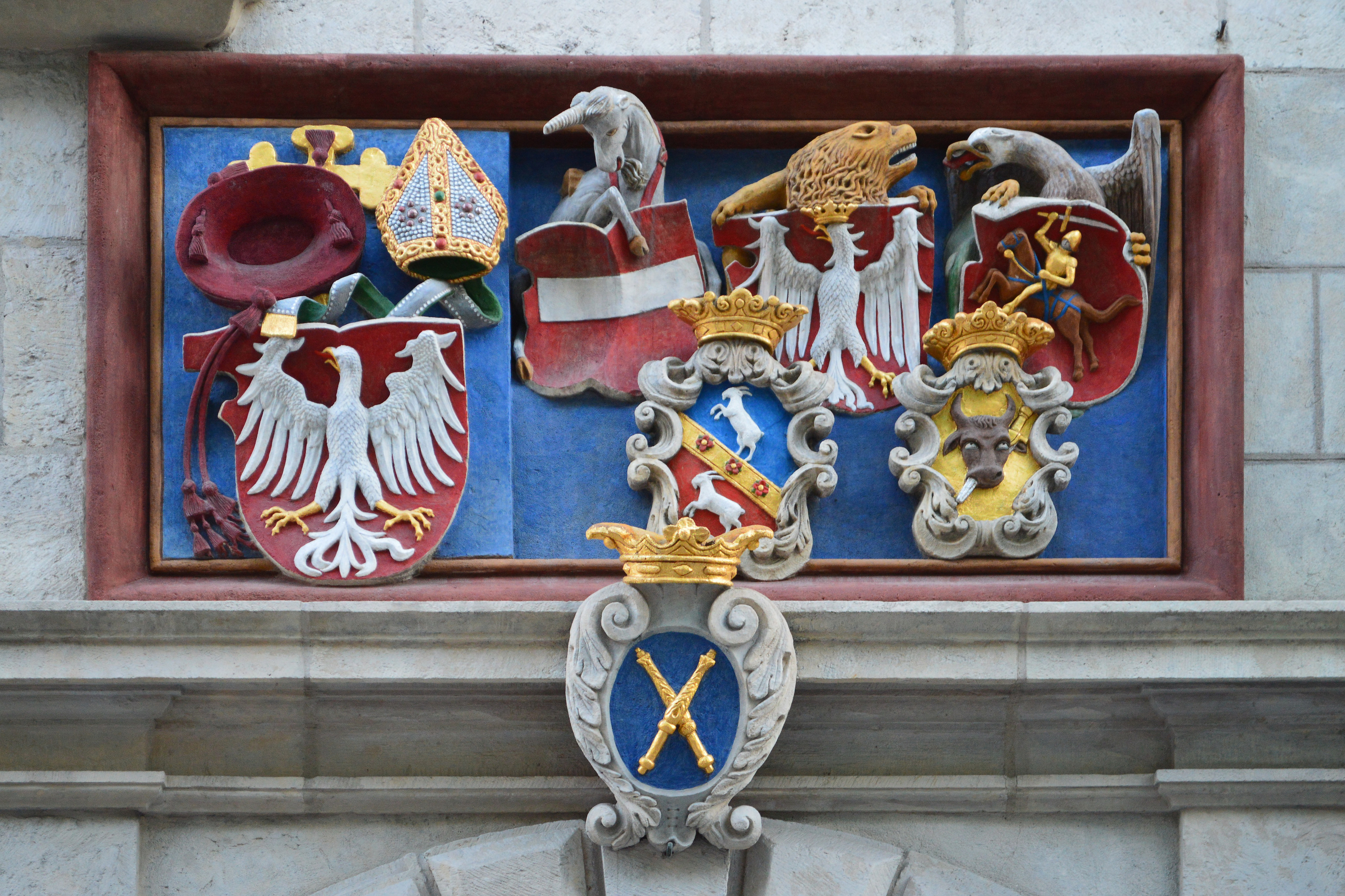 The Renaissance Sukiennice (Cloth Hall or Drapers' Hall) is the central feature of the Main Market Square (Rynek Głowny) in the Old Town of Kraków. It was once a major centre of international trade, with its 'golden age' in the fifteenth century.The Scotch Mist Gallery contains many photographs of historic buildings, monuments and memorials of Poland.